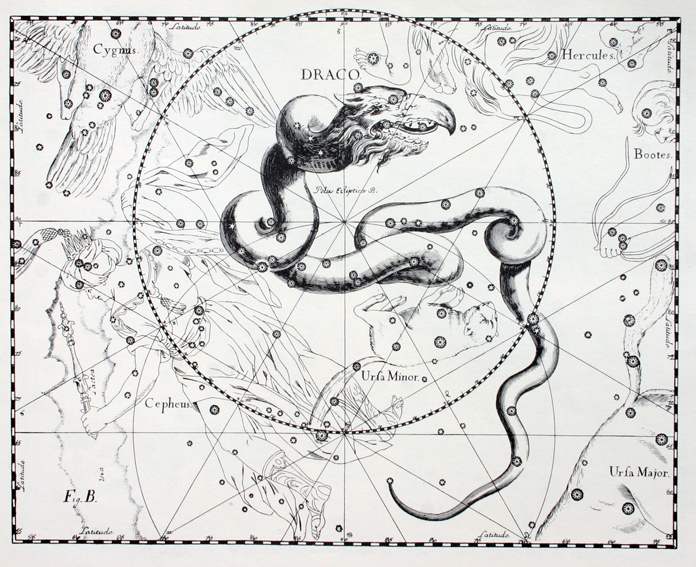 The Draco (constellation) constellation from Uranographia by Johannes Hevelius. The view is mirrored following the tradition of celestial globes, showing the celestial sphere in a view from "outside"